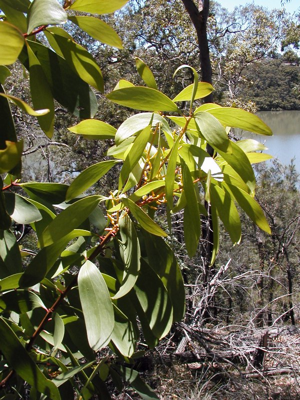 Persoonia levis, overlooking Georges River, Oatley bush photo - Cas Liber